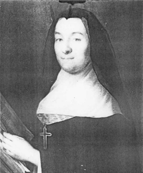 Françoise Pâris de Soulanges, last abbess of Royallieu Abbey